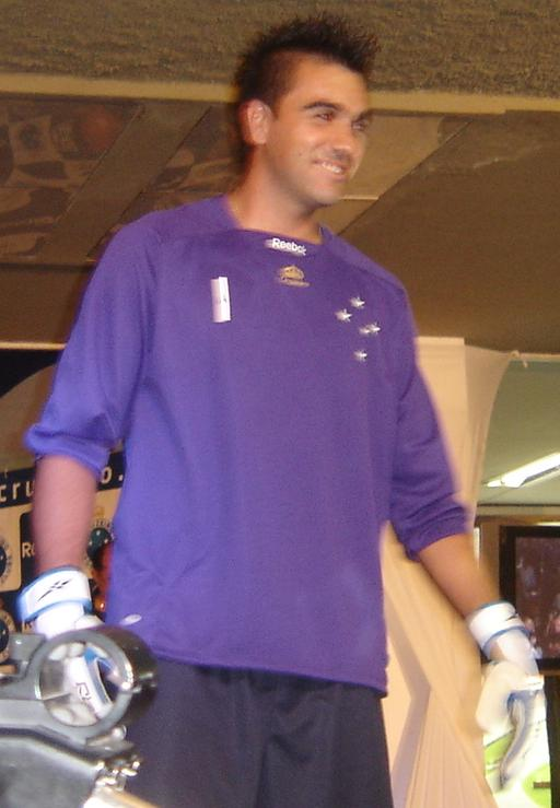 Brazilian football player Andrey